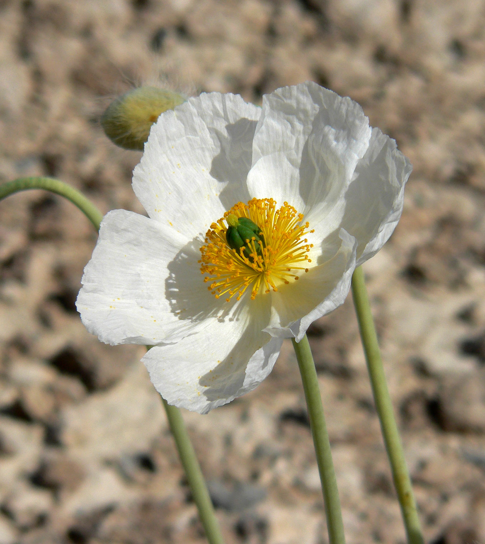 Arctomecon merriamii in gypsum area about 600m SSW of Devils Hole, Ash Meadows, southern Nevada